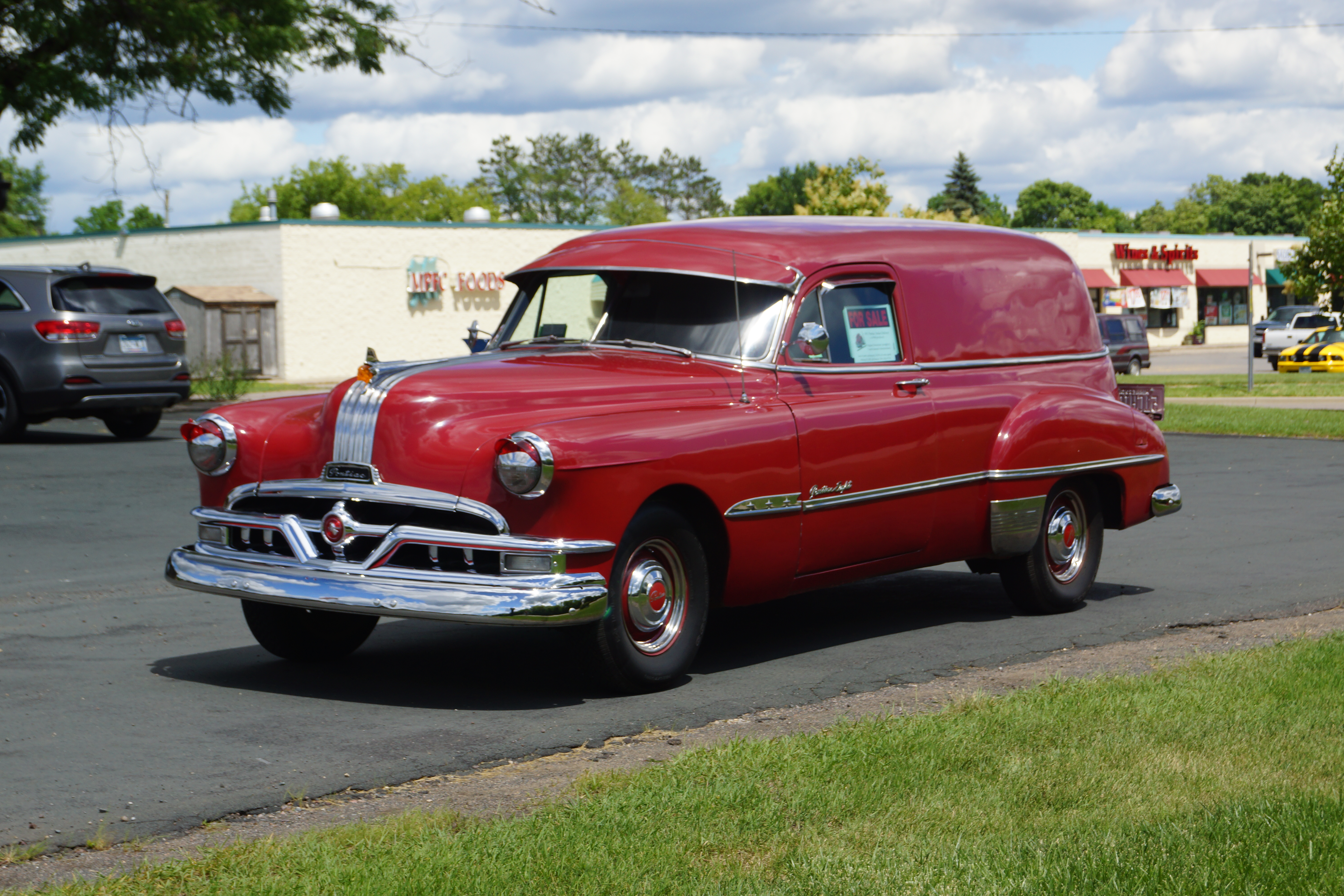 Click here for previous "Back to the 50's" pictures.. Click here for more car pictures at my Flickr site. Or here for my Car Crazy Tumblr site. Or on Twitter @DVS1mn.